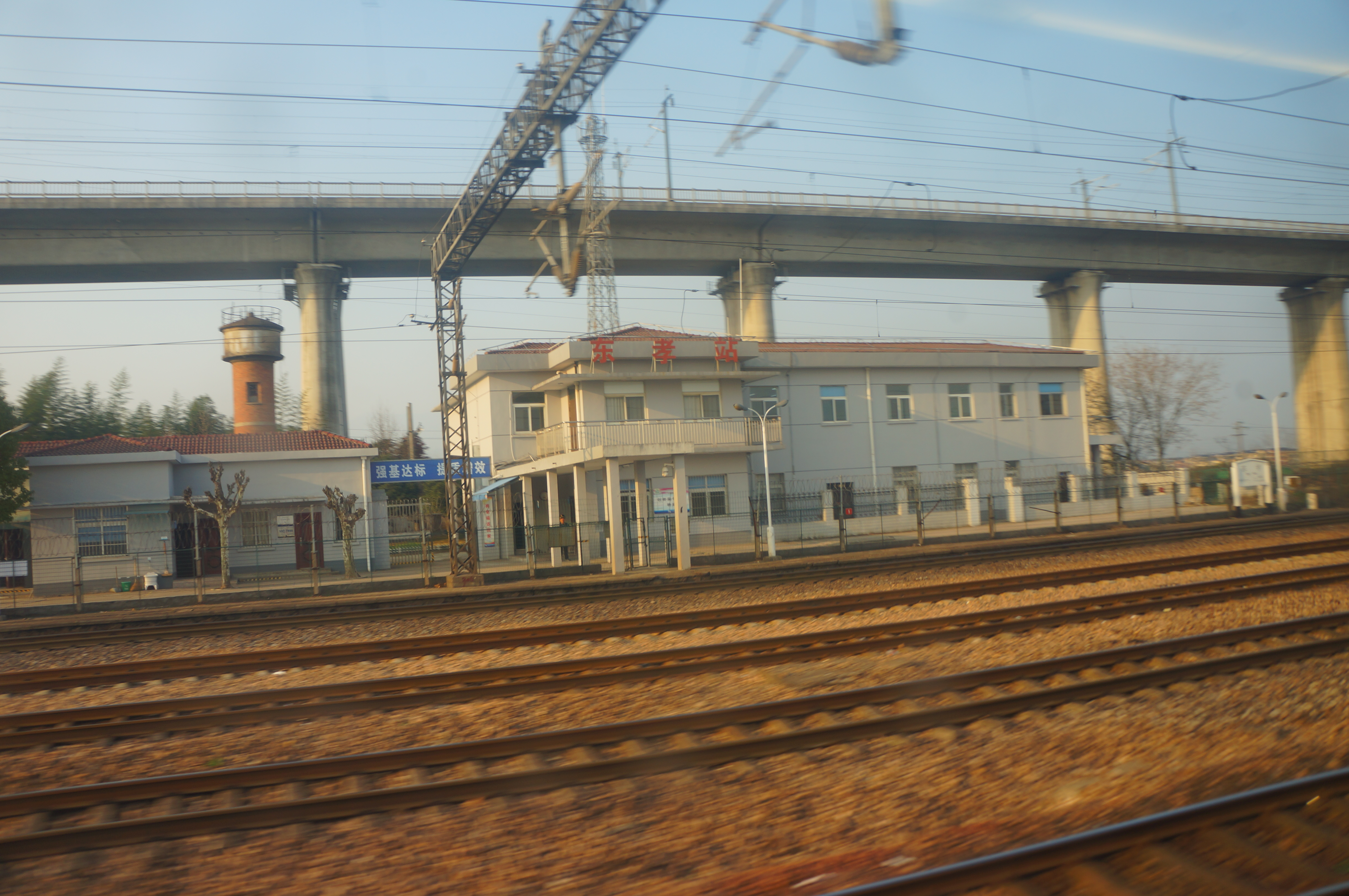 201712 Dongxiao Station